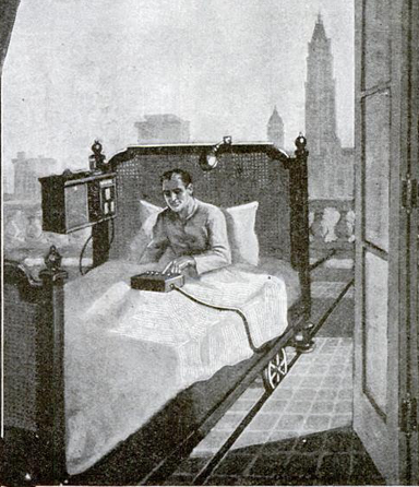 Automotive bed developed by Henry Latham Doherty